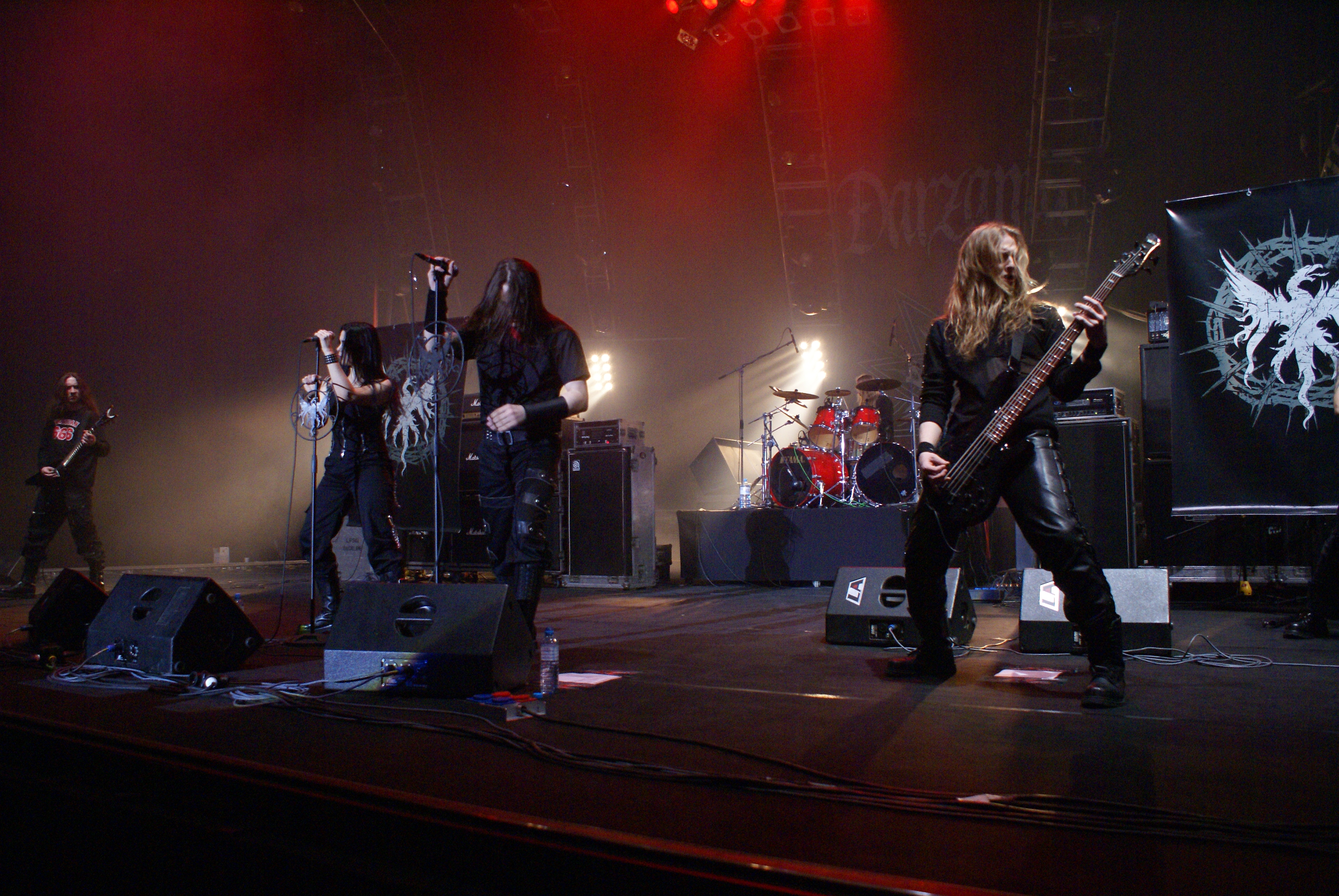 Daamr, Nera, Flauros, Darkside and Bacchus from Darzamat during Metalmania 2007 festival.